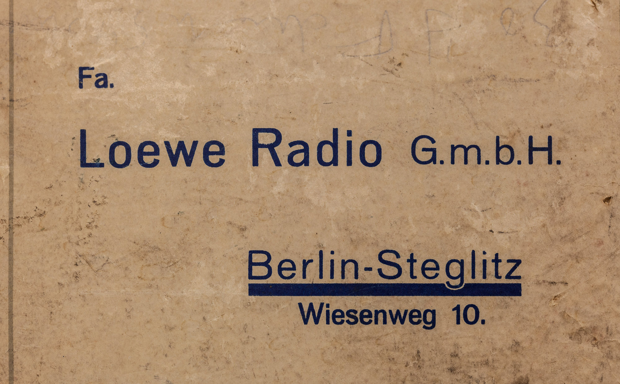 Address of one of the leading radio valve producers in Germany, Loewe Radio GmbH, Berlin, 1951. Museum für Kommunikation, Frankfurt, Germany. Photo by Maximilian Schönherr with help from Lioba Nägele.